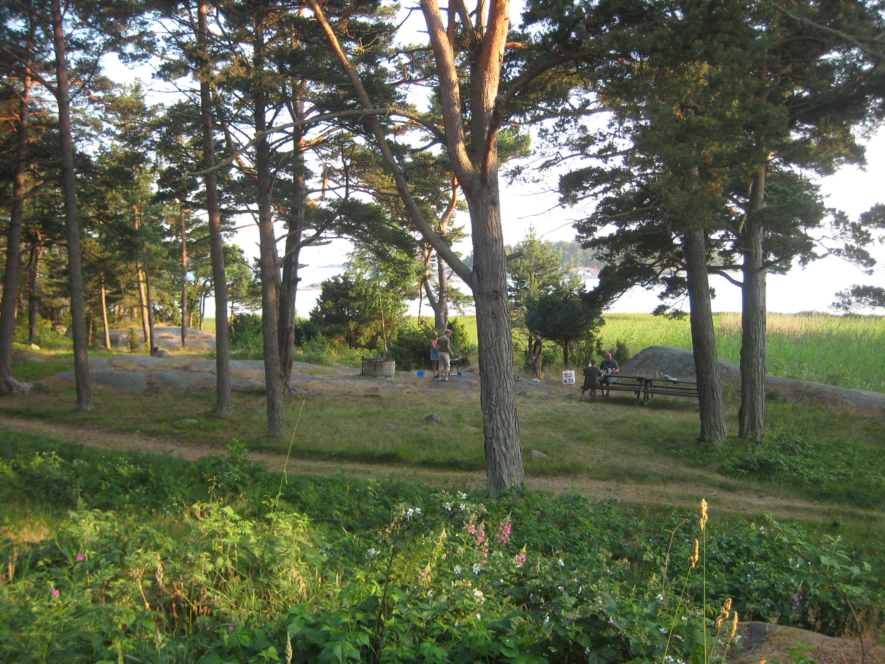 Fjärdlång.